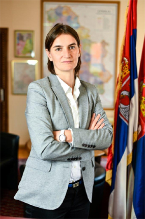 Ana Brnabić (1975), Serbian politician